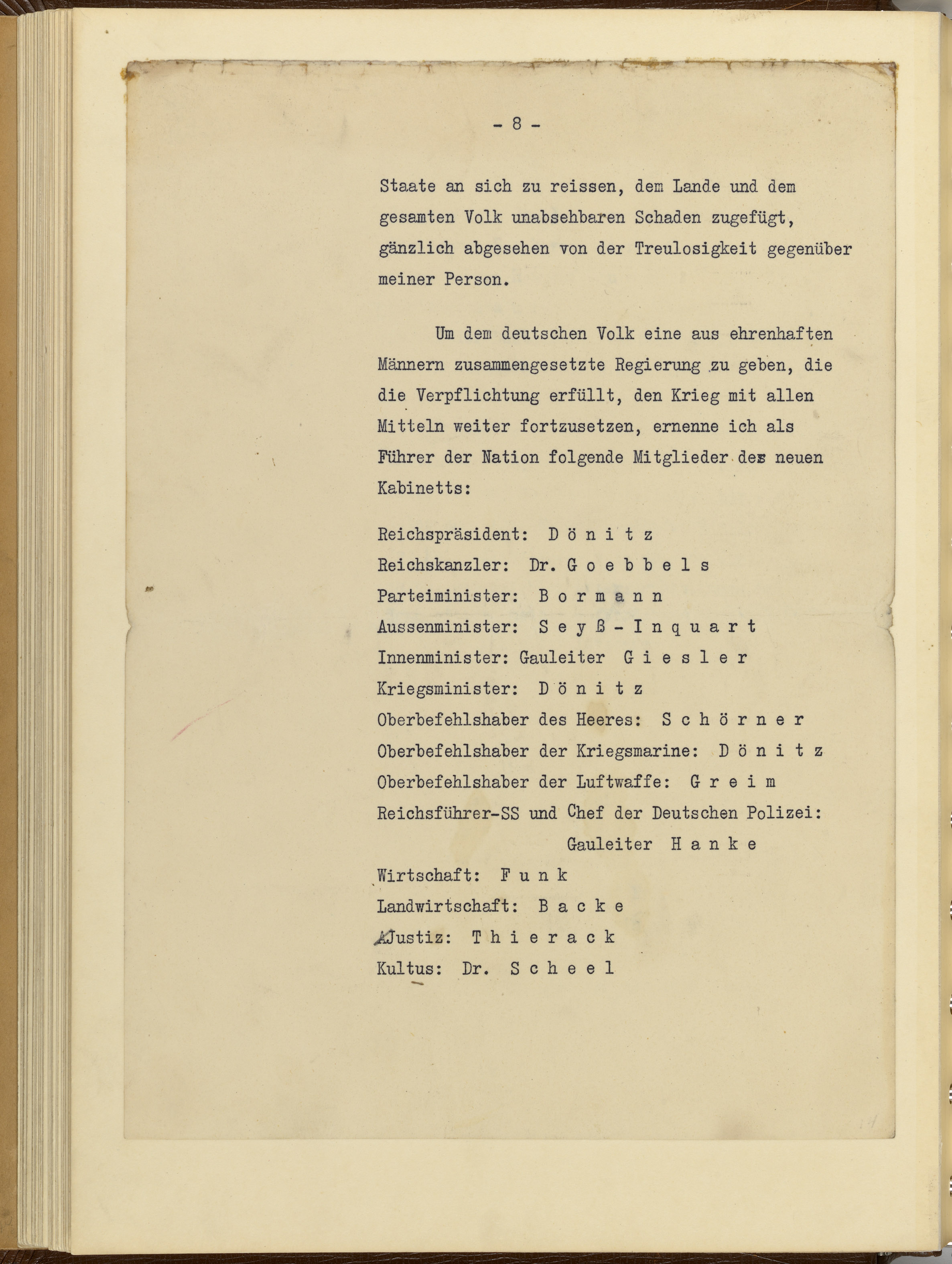 Digital File Name: 00357_2009_030 ReDiscovery Number: 00357 Last Will and Political Testament of Adolph Hitler, 1945 RG 242 Hitler Items Personal and Political Will of Adolph Hitler Box 2A